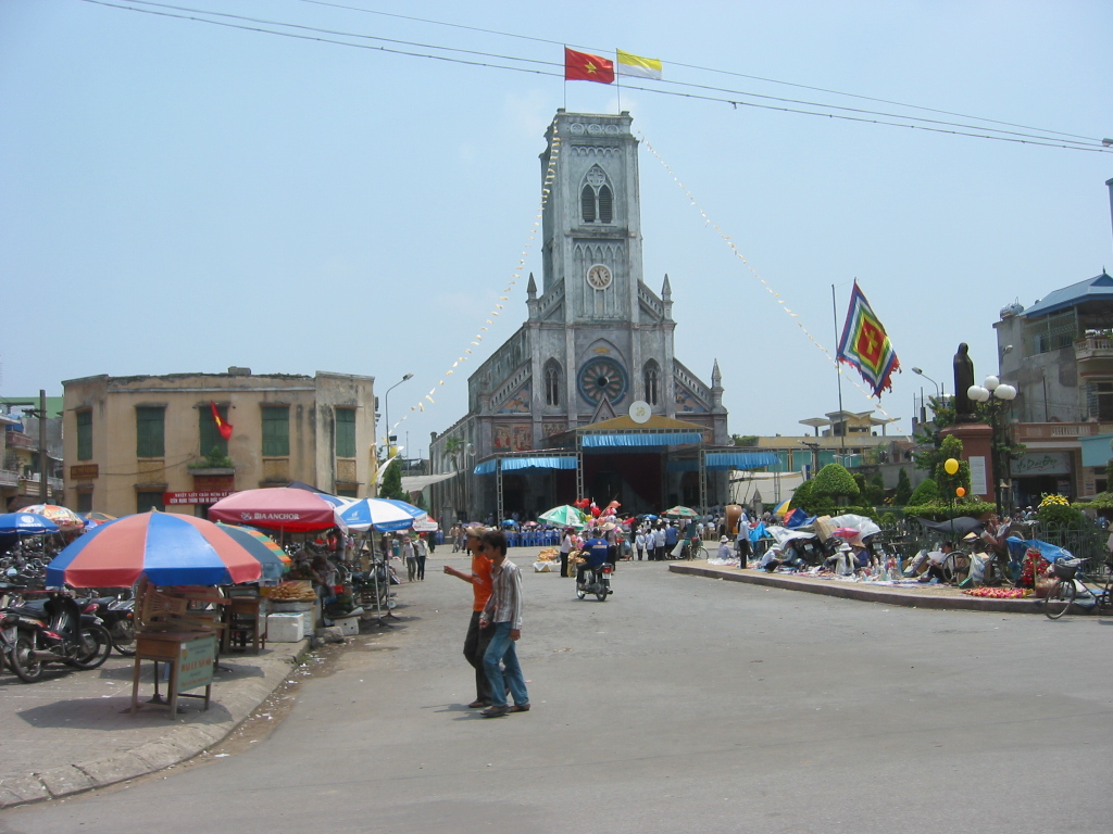 Church in the center of Nam Định city, Việt Nam.